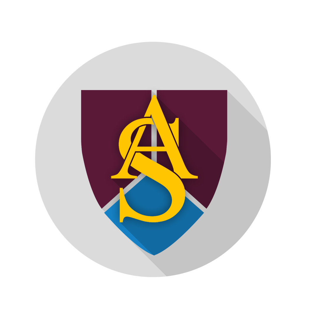 Ashlawn School Badge 2014.